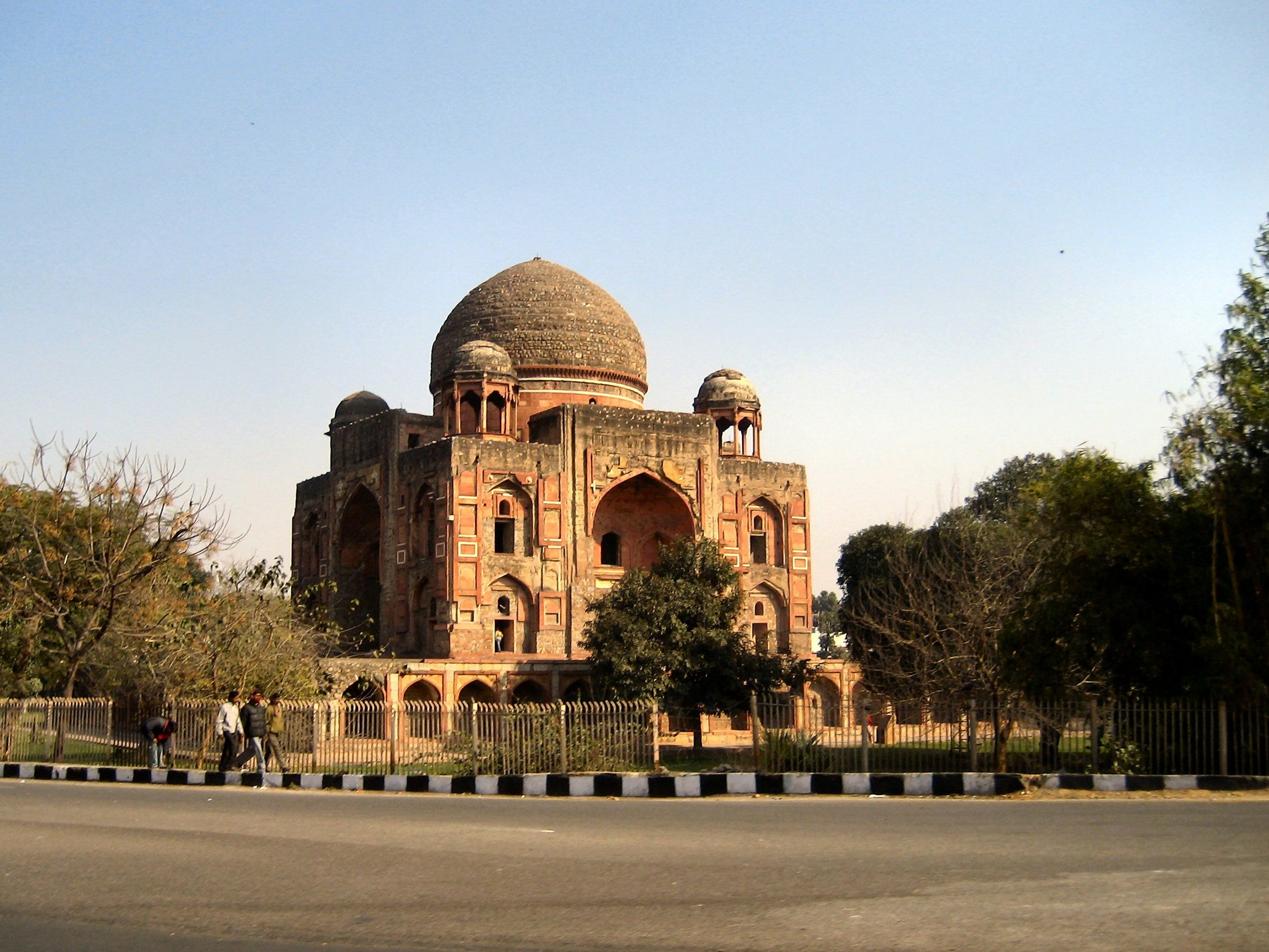 Tomb of Abdul Rahim Khan-I-Khana, Delhi.